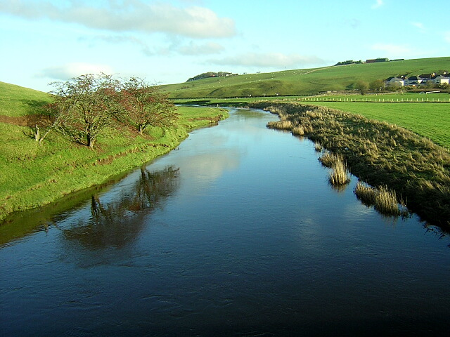 Douglas Water from Douglaswater Bridge